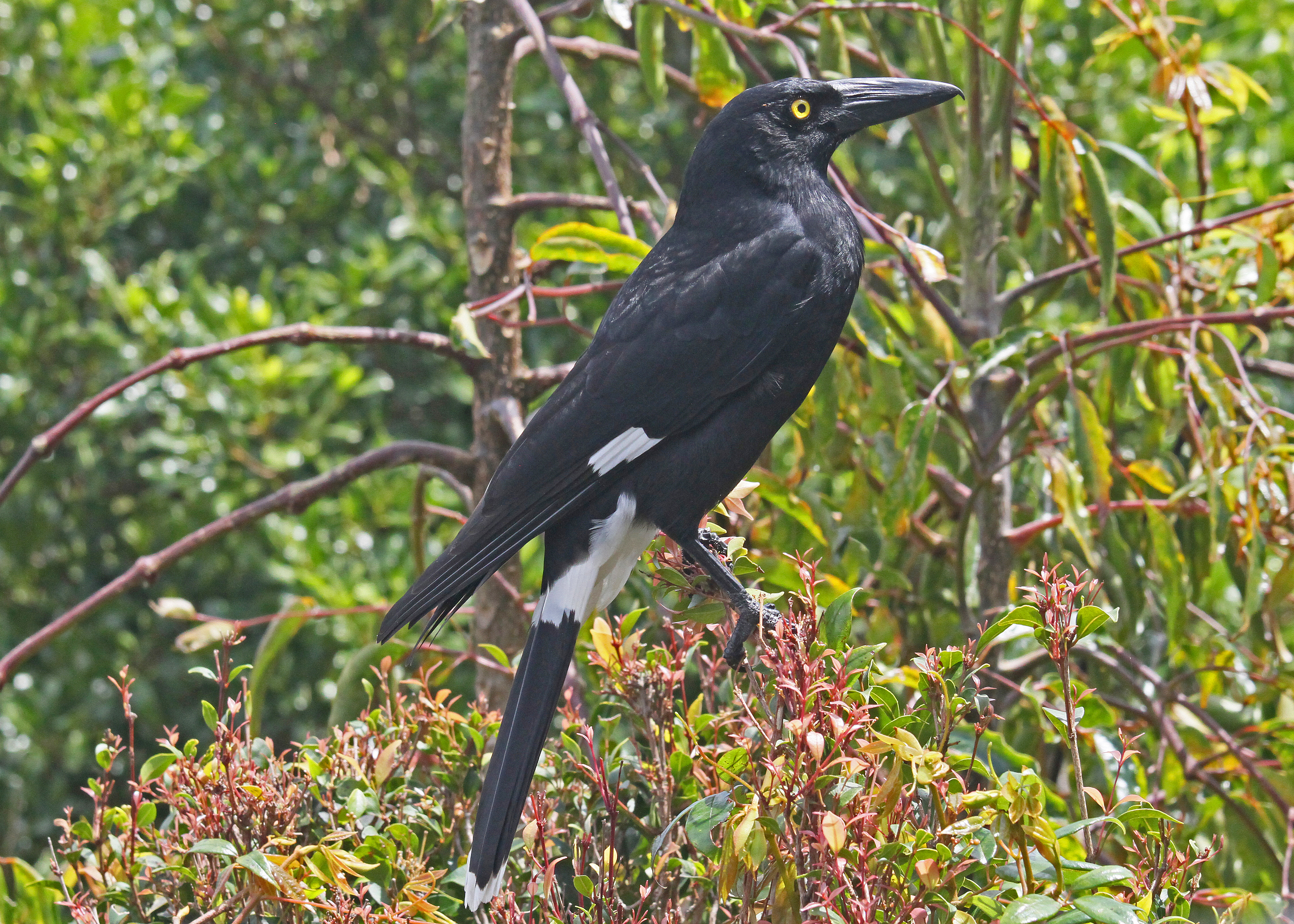 photo of Pied Currawong